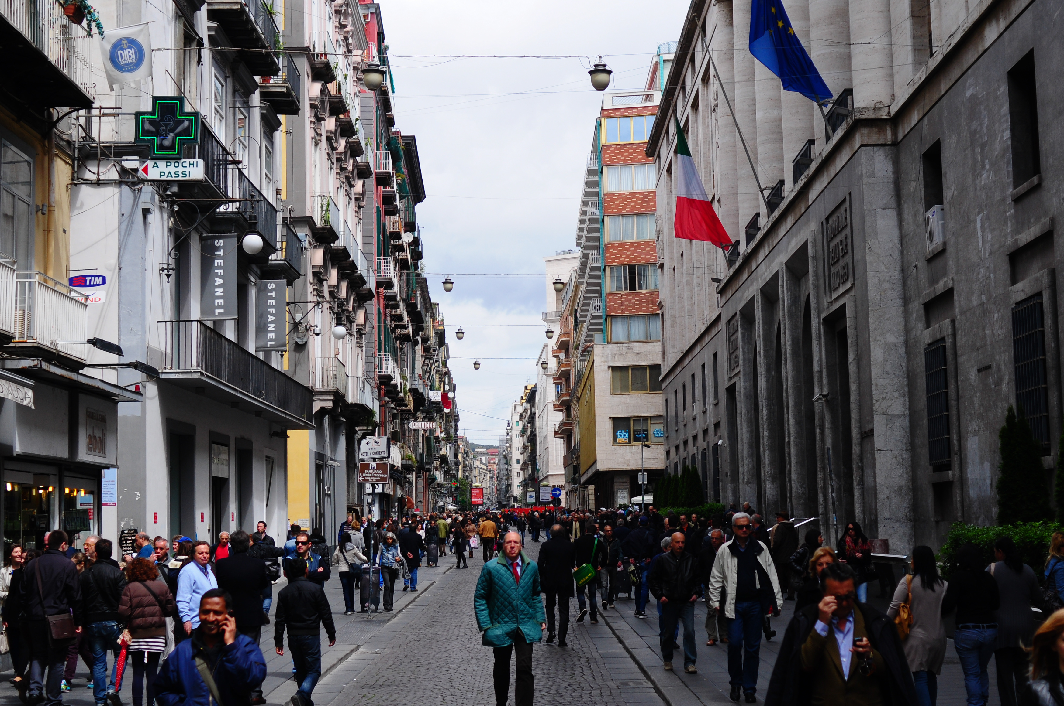 Via Toledo(Napoli). Naples, Campania, Italy, South Europe.